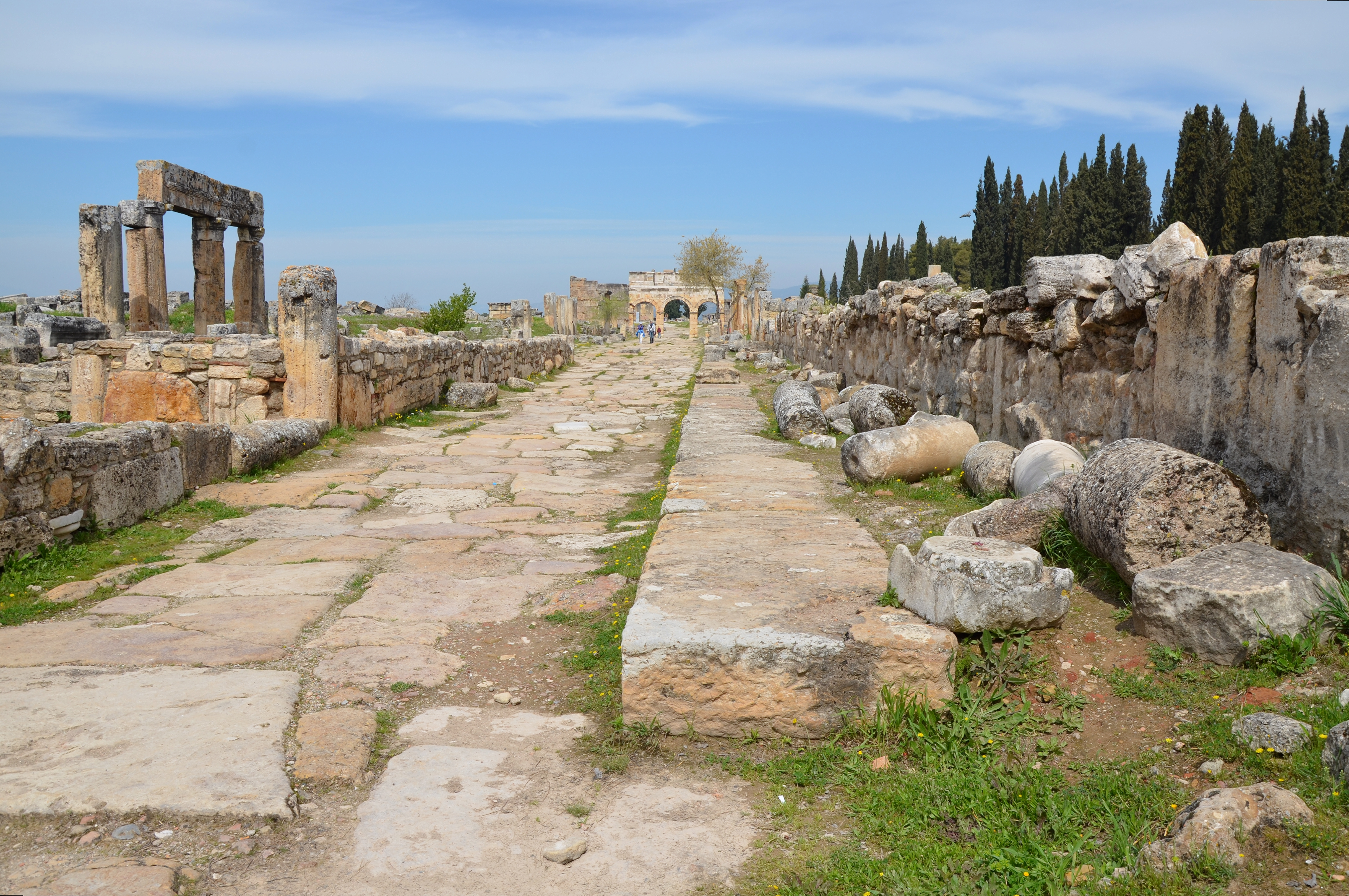 Frontinus Street extending in the north-south direction of the city, Hierapolis, Phrygia, Turkey